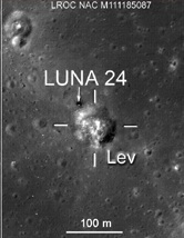 Lev lunar crater LROC NAC image M111185087